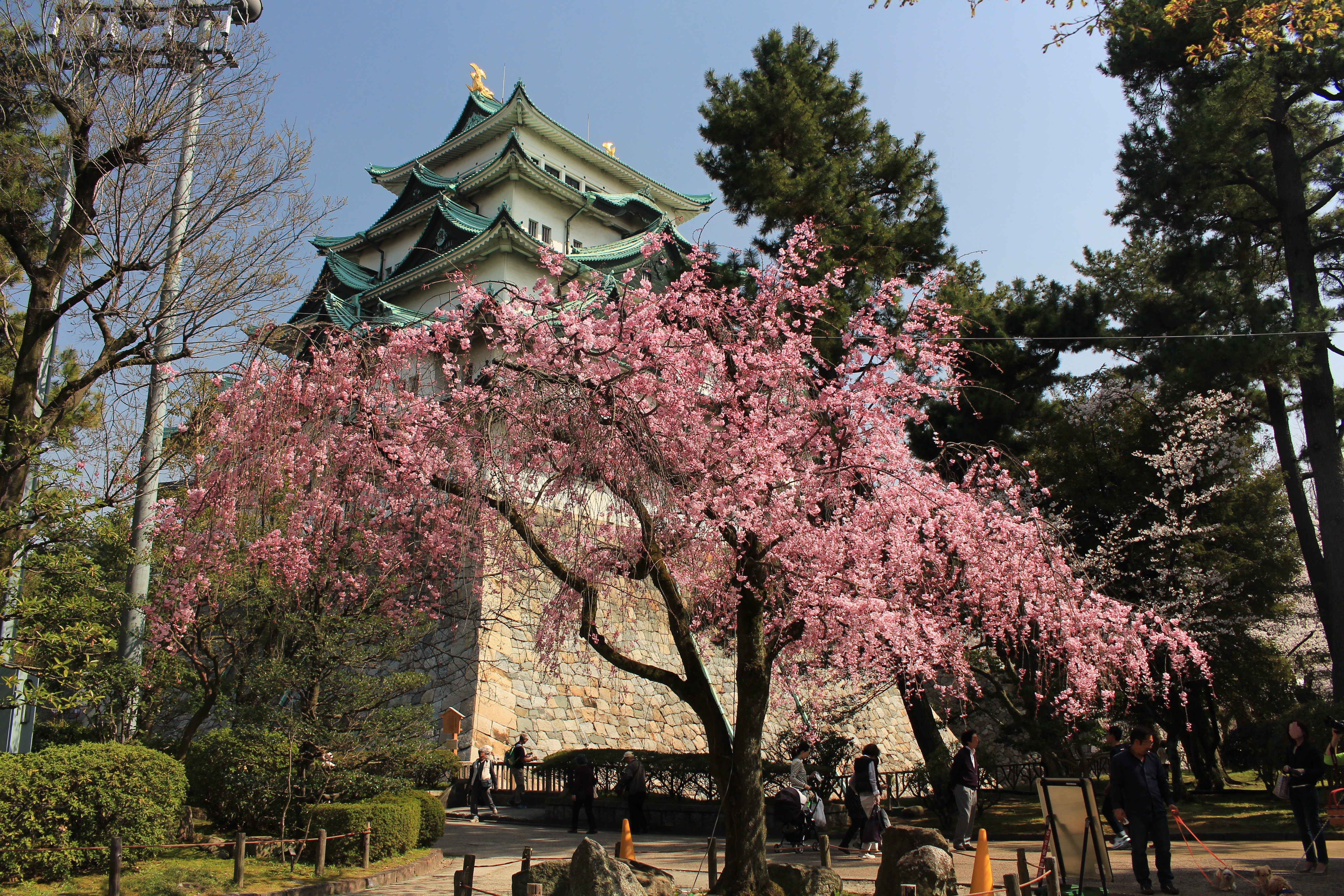 Nagoya Castle Keep Tower and Sakura in Nagoya, Aichi prefecture, Japan.